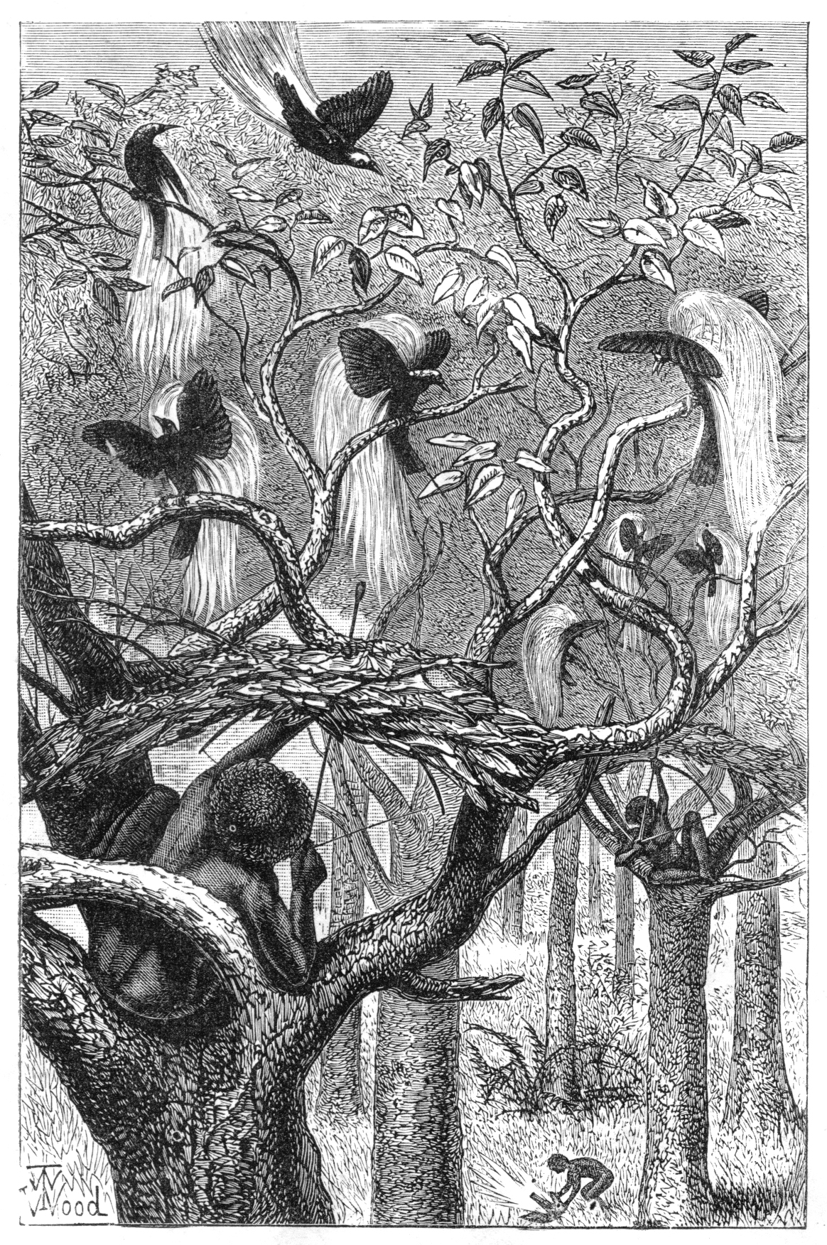 Caption reads: "NATIVES OF ARU SHOOTING THE GREAT BIRD OF PARADISE" CHAPTER XXIX - THE KÉ ISLANDS (JANUARY 1857) [1]